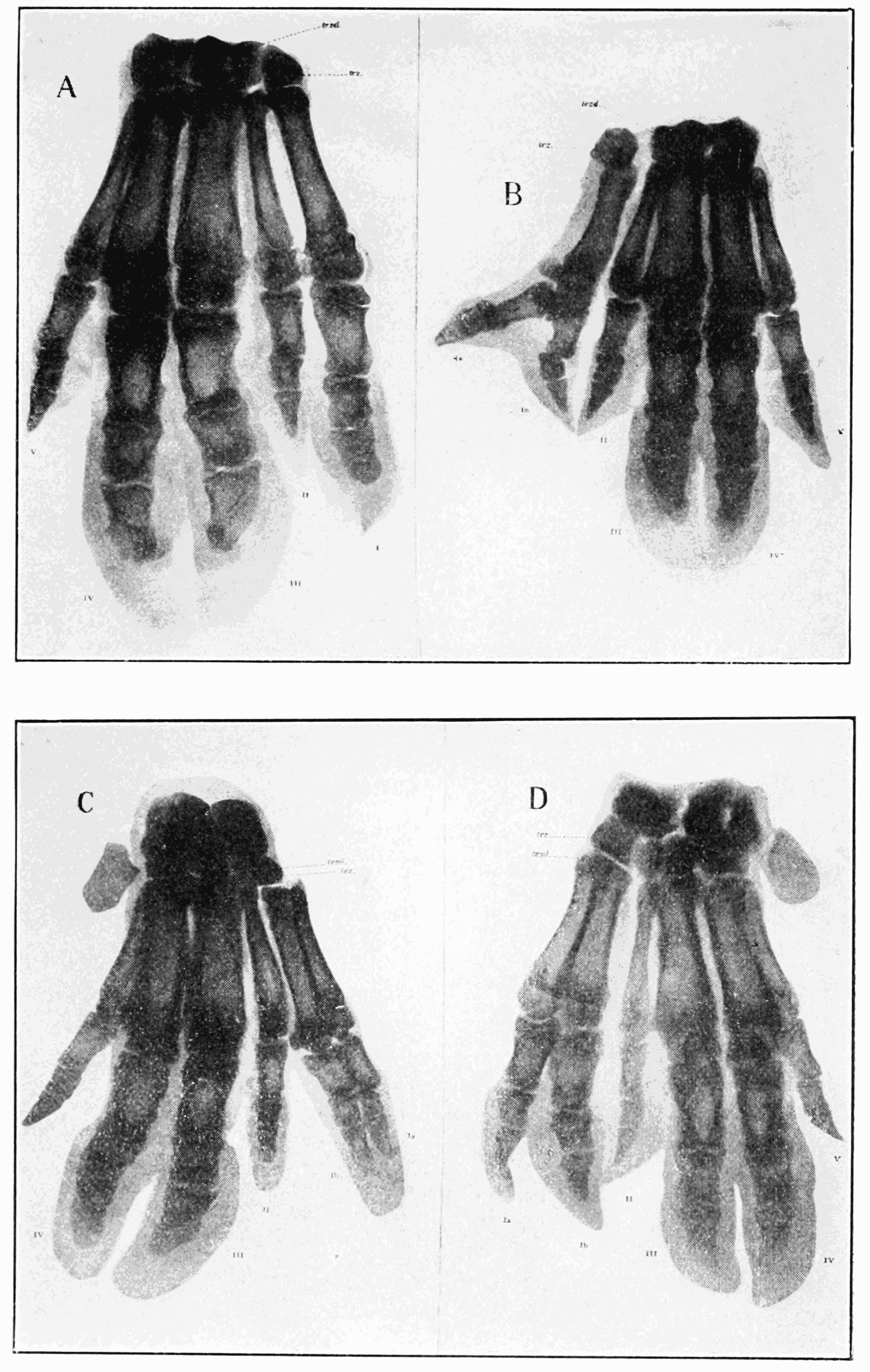 X rays of the variations and duplications of the pollex of the pig manus